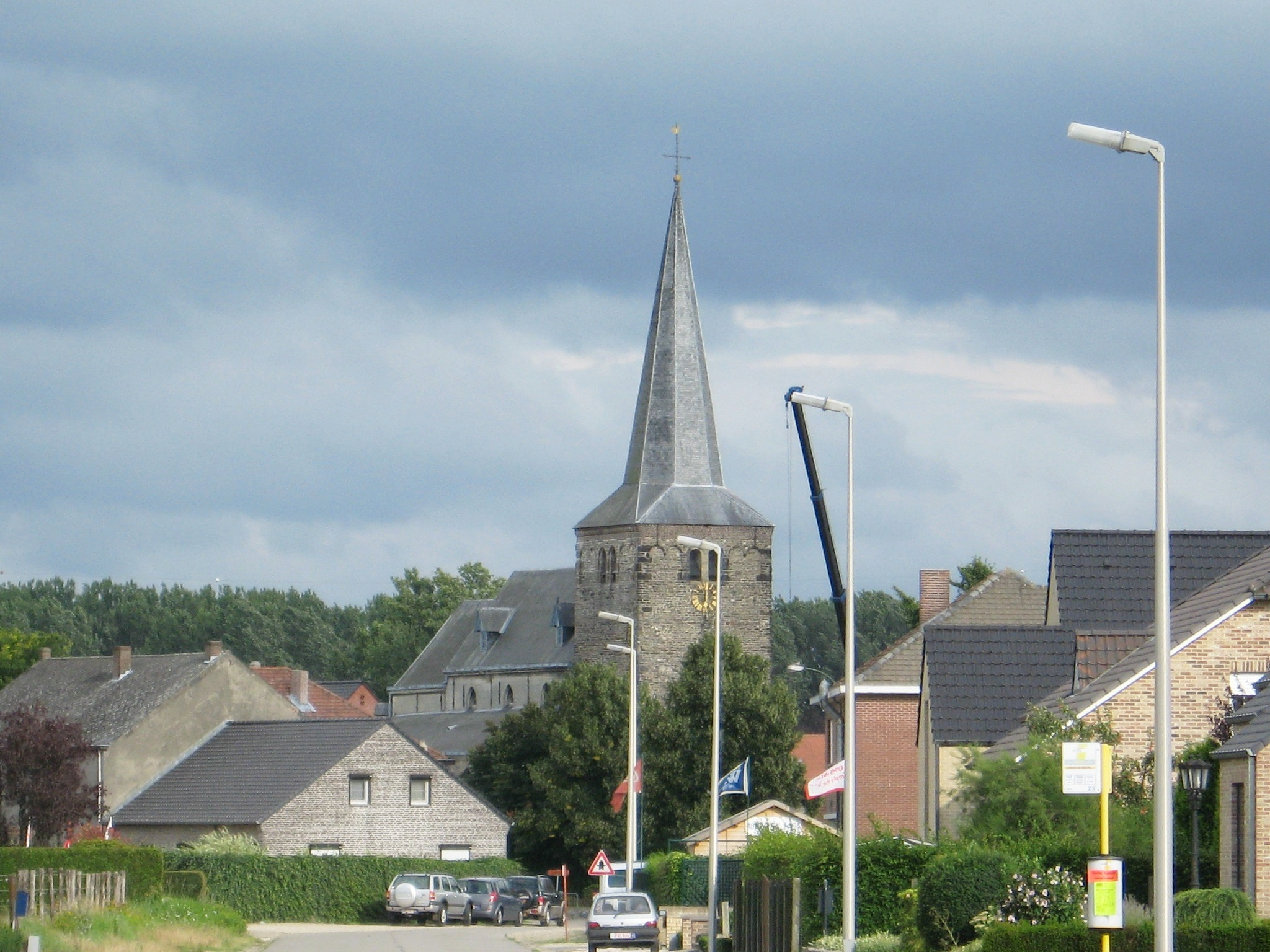 Church of Saint Martin in Beek, Bree, Limburg, Belgium